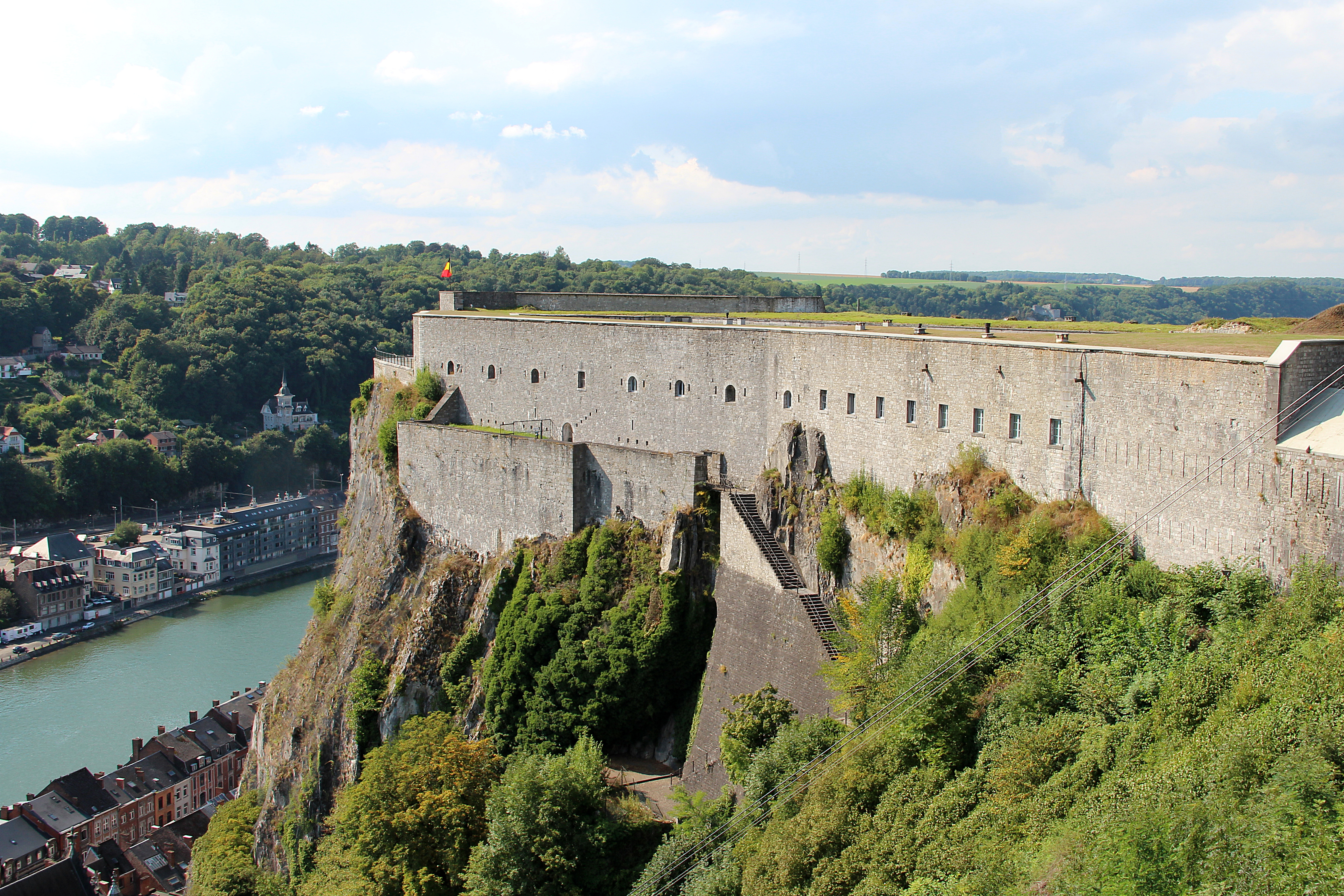 The Citadel (XI-XIX centuries) of Dinant (Belgium).